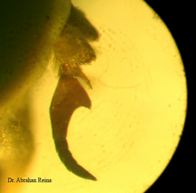 Tabanus subsimilis (guatemalus) (HINE)